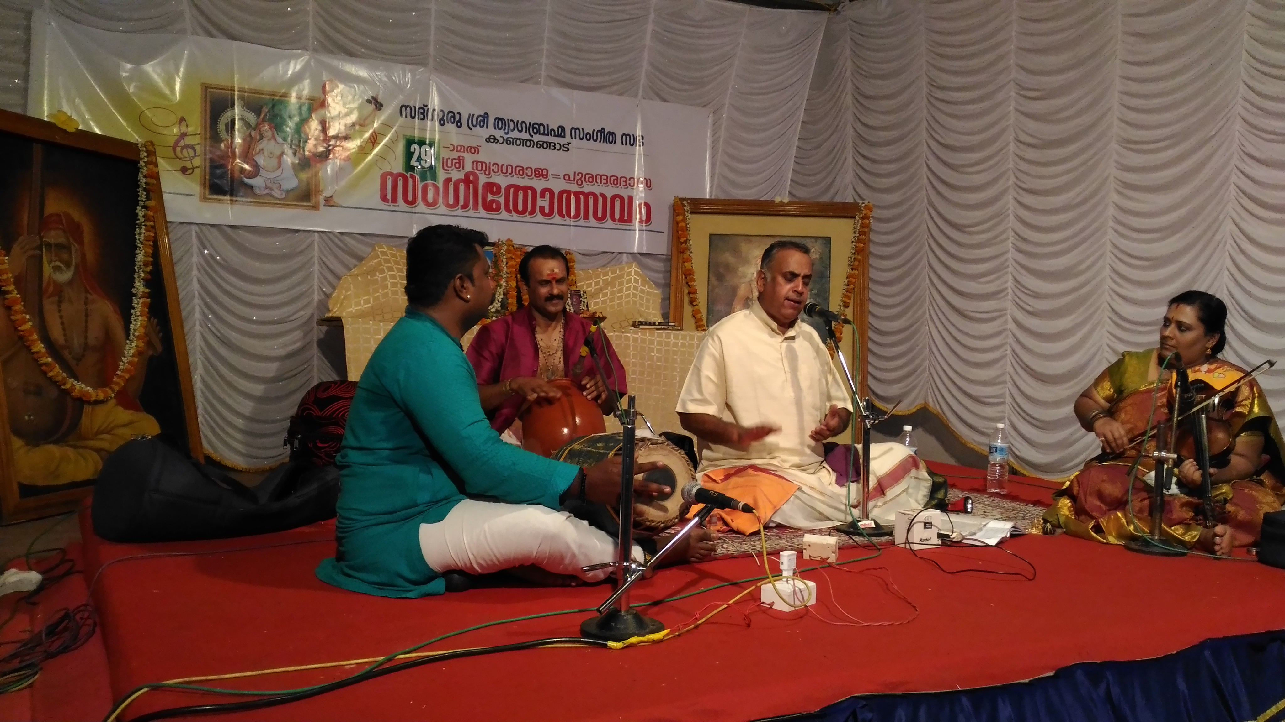 Vidwan S. Shankar Sings at Kanhangad 0n 16 Feb 2017- Thyagaraja-Purantharadasa Sangeetholsavam.